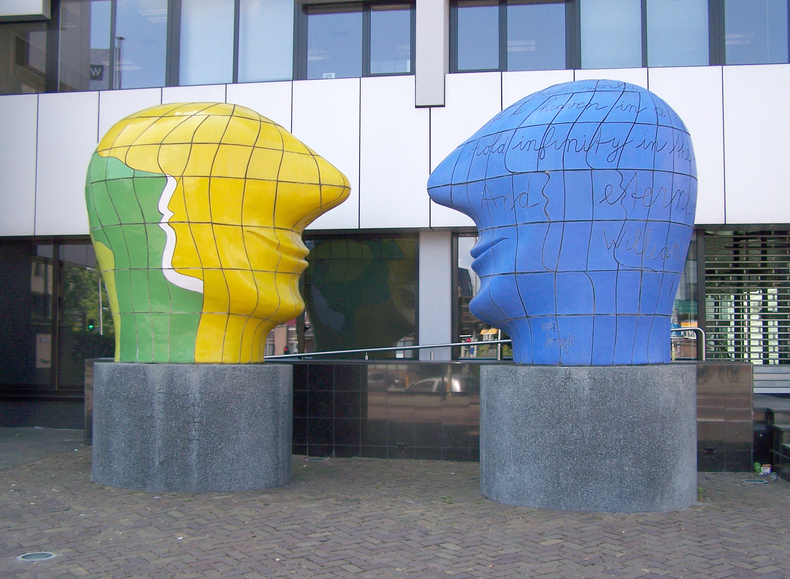 Scupture "Dialoog" (2001) by Jan Snoeck at the office of Witteveen & Bos at the Leeuwenbrug/Churchillplein in Deventer.